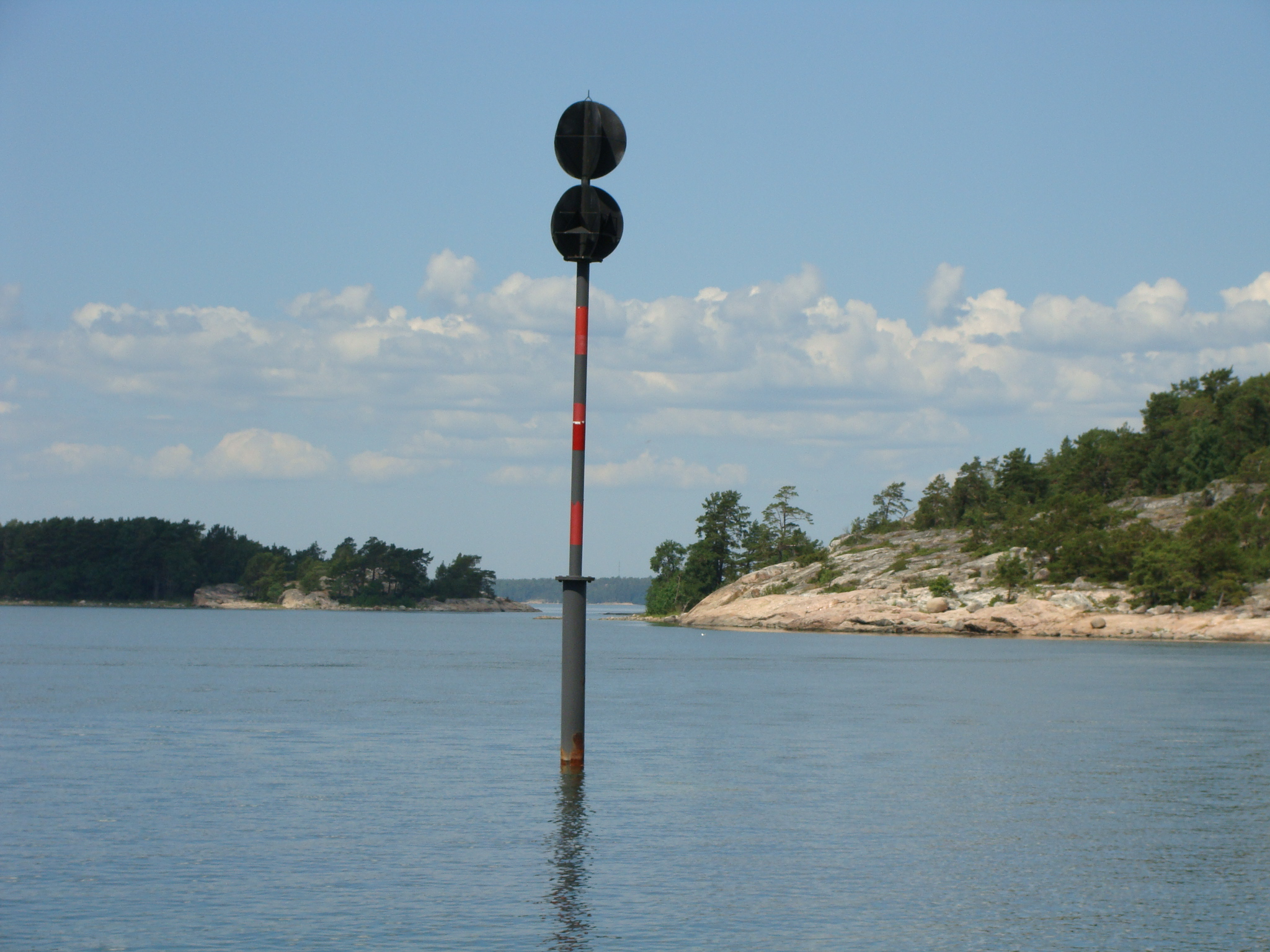 Fixed isolated danger mark south of Gråsö island in Central Archipelago Sea in Finland.